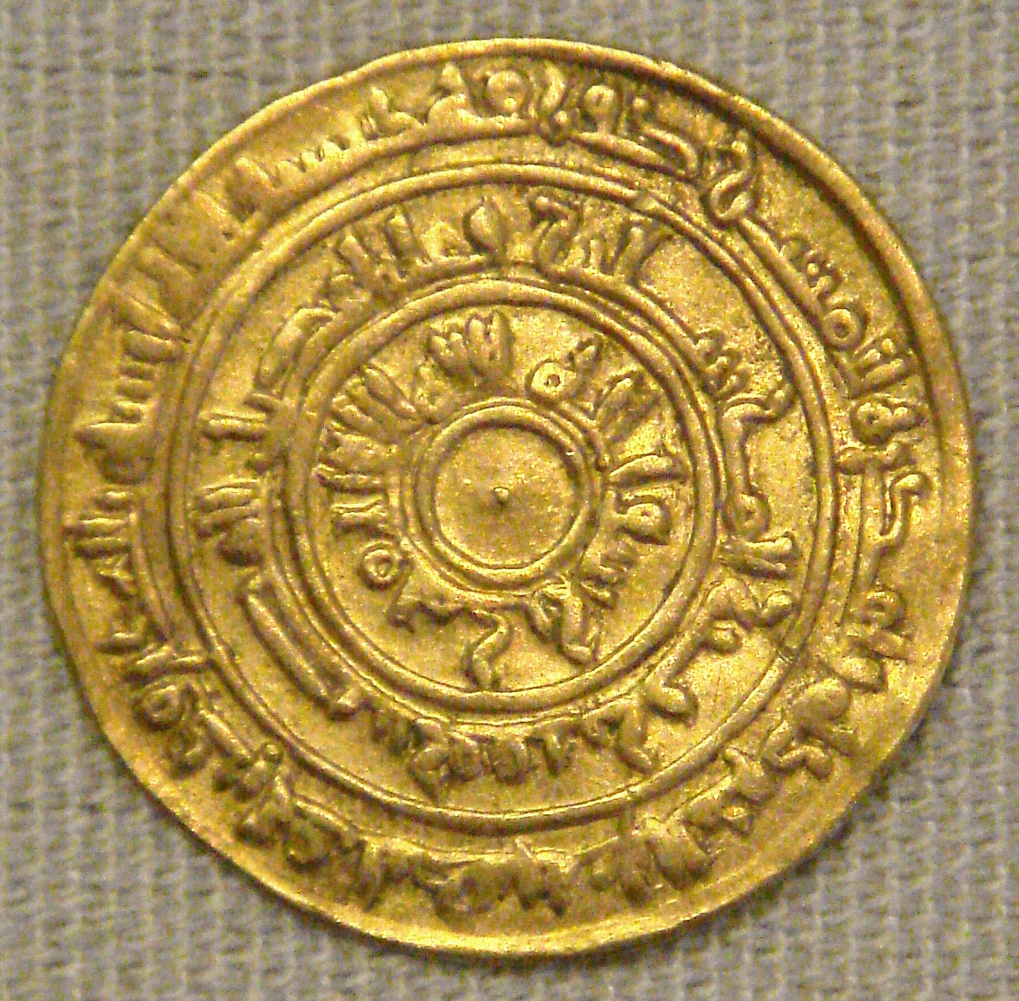 Calif_al_Muizz_Misr_Cairo_969_CE